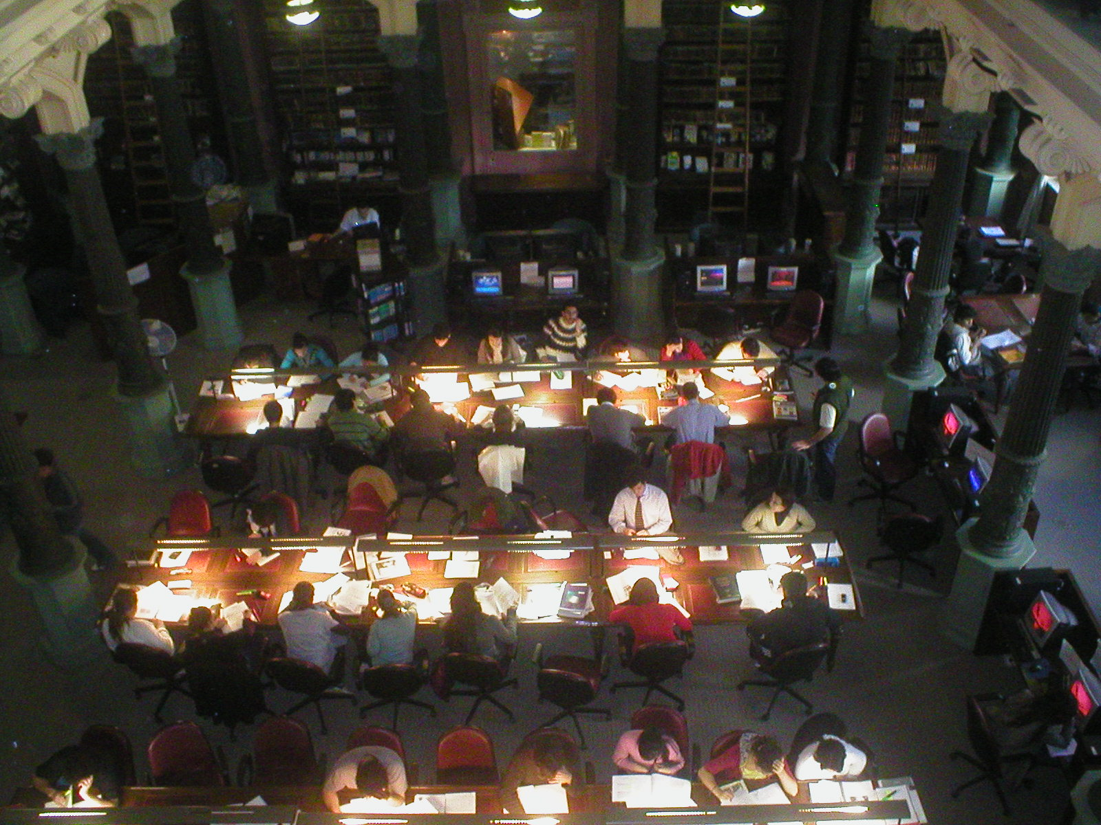 Reading room in Teachers' Library. Ministry of Education (Pizzurno Palace), Buenos Aires.